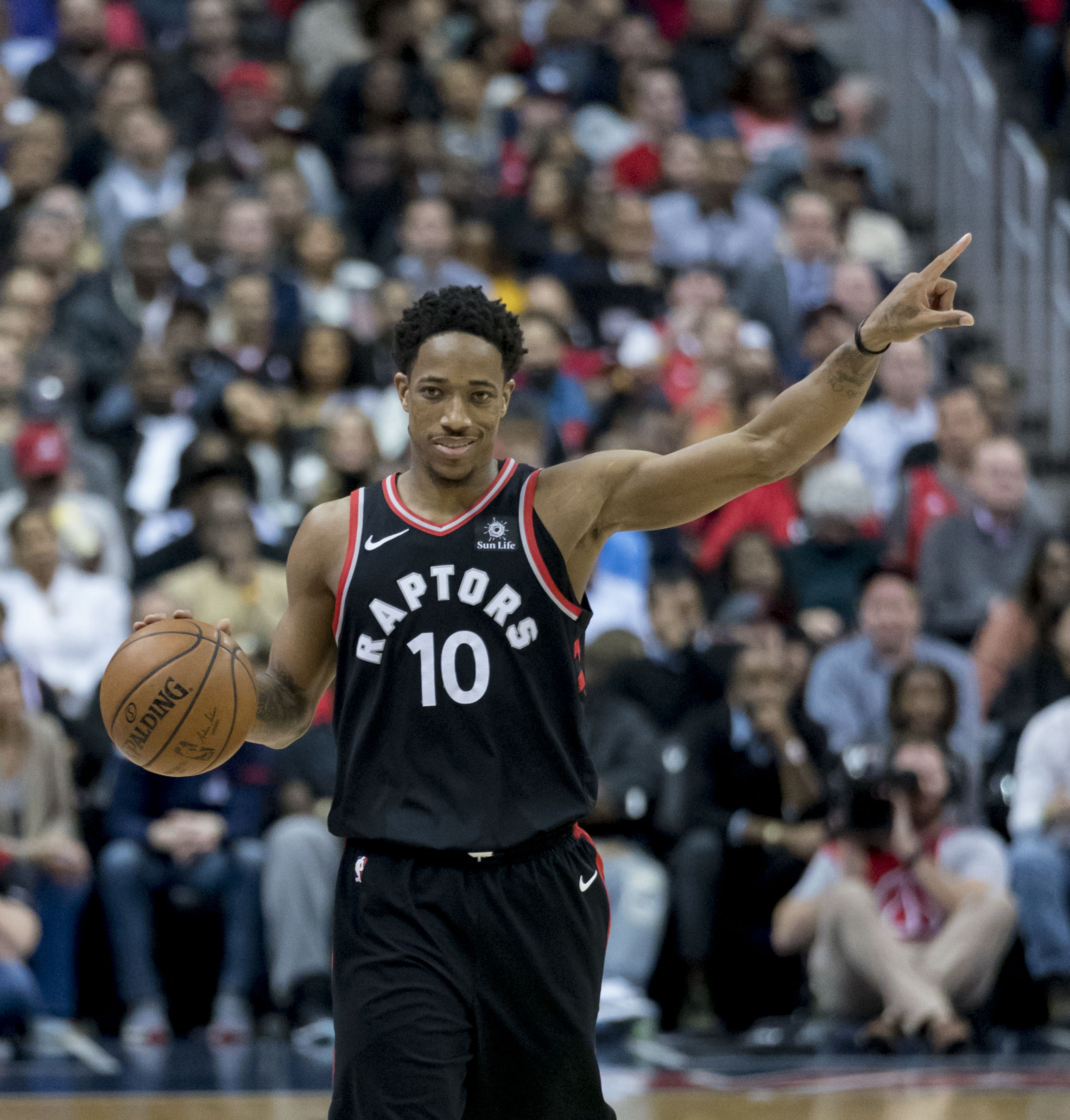 Raptors at Wizards 3/2/18